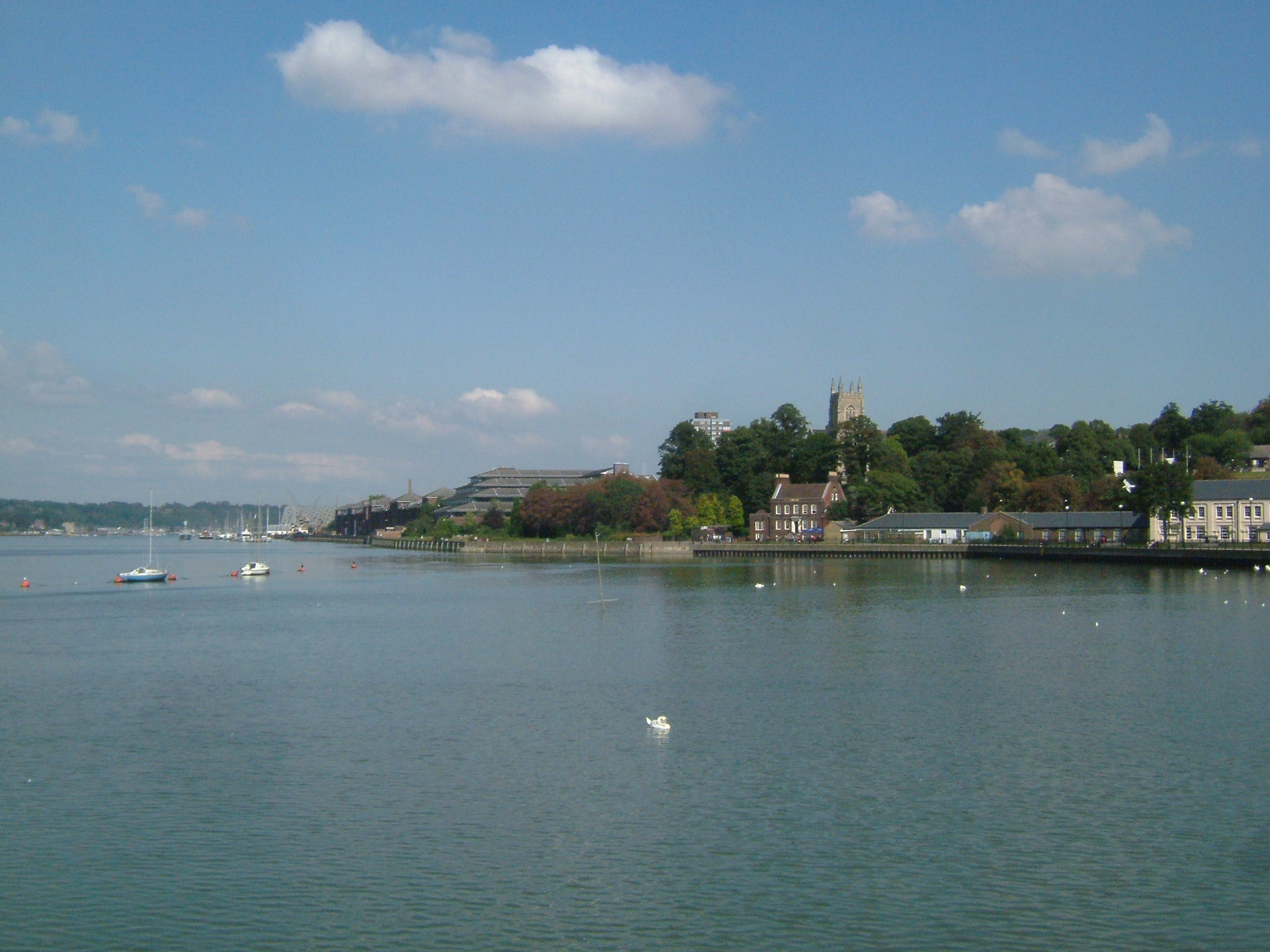 Chatham lies on the outside arc of the tidal River Medway. Upstream is Rochester and downstream is Chatham Dockyard. Looking downstream, we see the coverslips, Anchor Wharf storehouses, then Gun Wharf with Lloyds Building- HQ of Medway Council, the high rise flats at Melville Court, the Command House pub, with St Mary's Church above, and Chatham Library with Fort Amherst above. On the far bank is Upnor Castle. - Google Maps - Google Earth